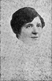 A newspaper photograph of a white woman with wavy dark hair, styled close to her head and off her neck and shoulders. She appears to be wearing a white blouse or dress with a high neck.